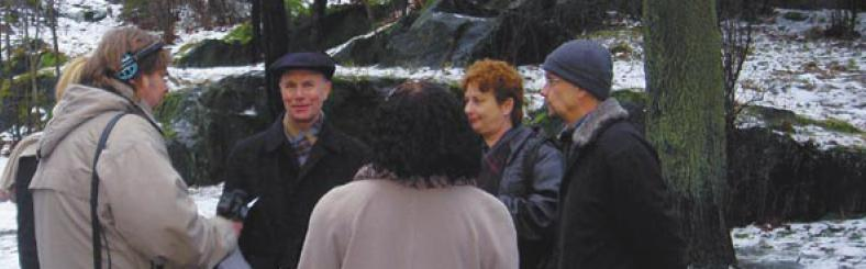 Justice Esa Aalto of Finnish Supreme Administrative Court giving an interview for the radio during a survey in Tampere